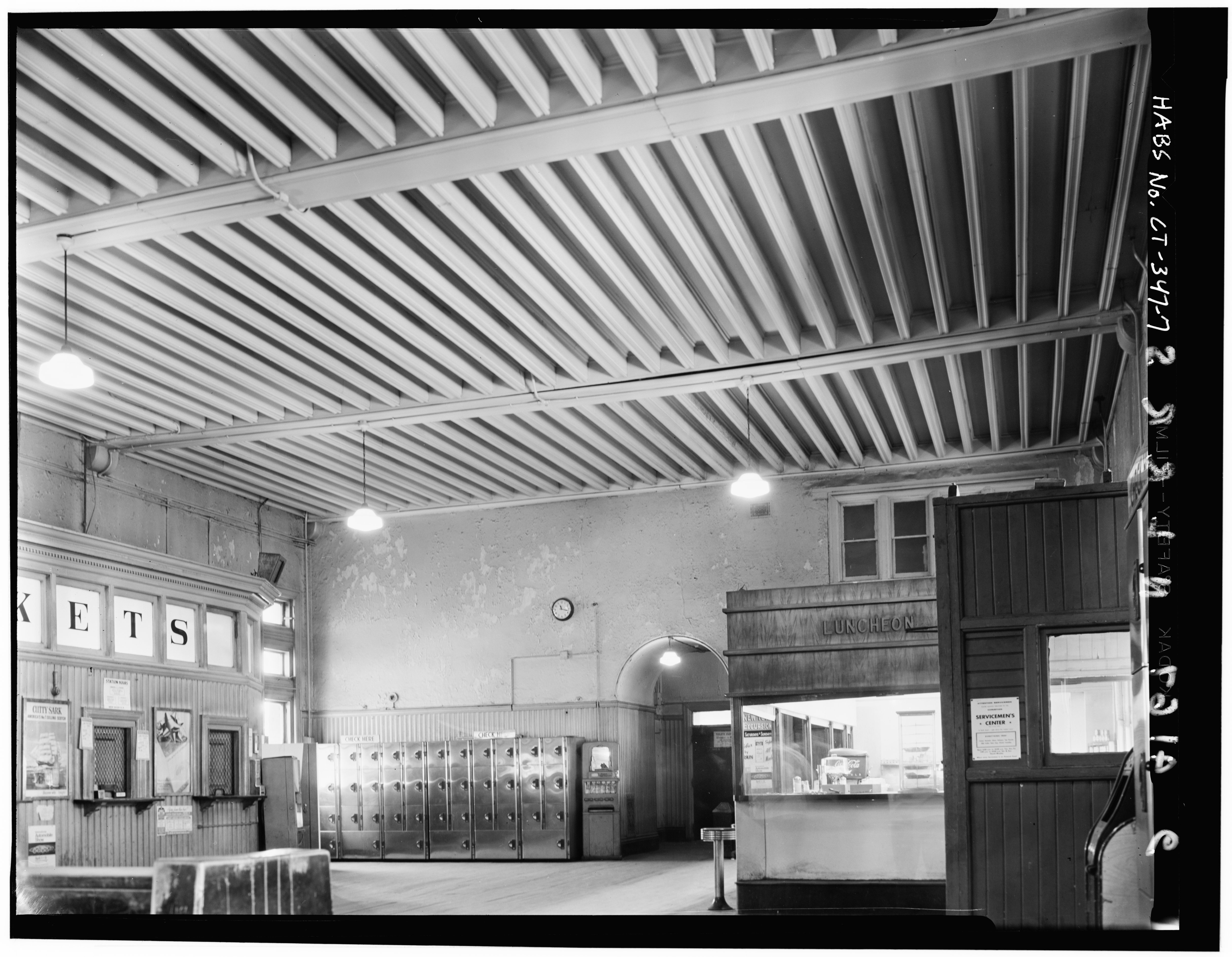 Interior view of the waiting room of New London Union Station